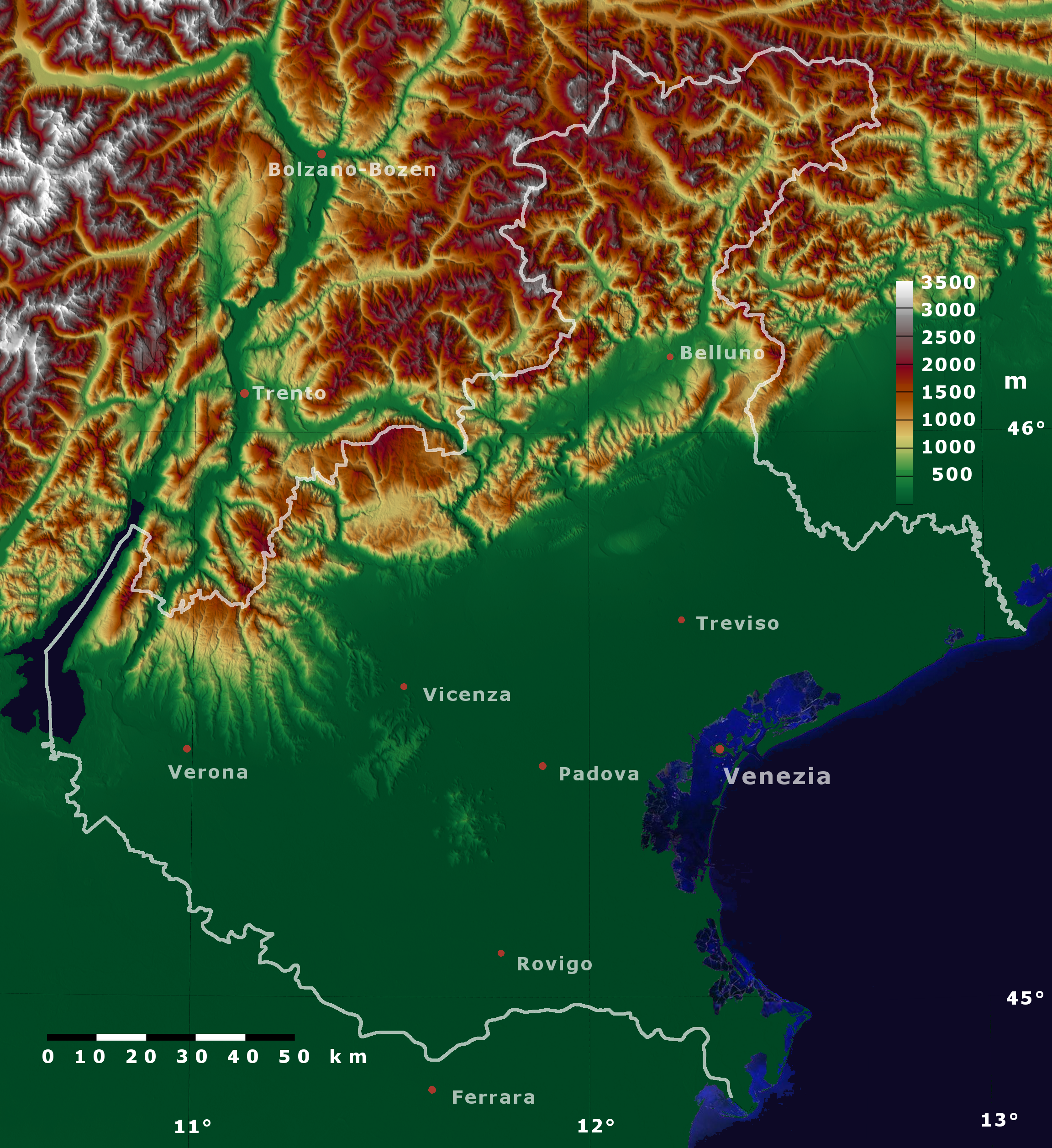 Map created with 3DEM from SRTM ( Administrative boundaries from OpenStreetMap. Lagoons from